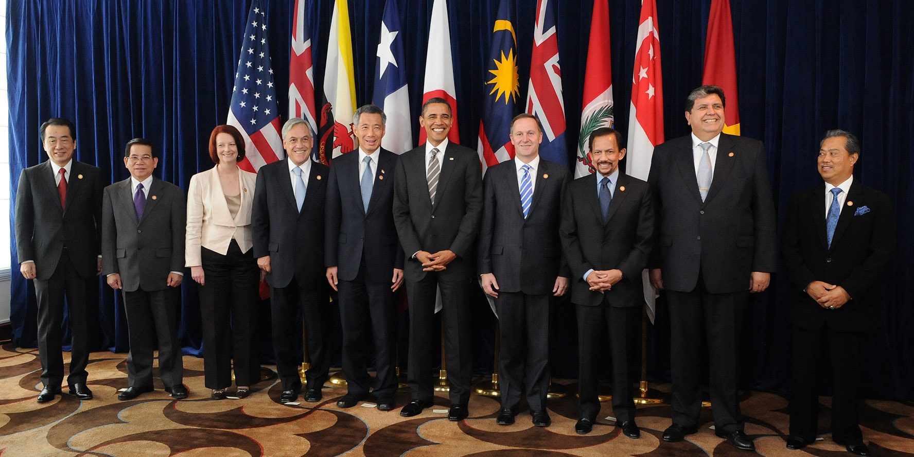 A summit with leaders of the (then) negotiating states of the Trans-Pacific Strategic Economic Partnership Agreement (TPP). Pictured, from left, are Naoto Kan (Japan), Nguyễn Minh Triết (Vietnam), Julia Gillard (Australia), Sebastián Piñera (Chile), Lee Hsien Loong (Singapore), Barack Obama (United States), John Key (New Zealand), Hassanal Bolkiah (Brunei), Alan García (Peru), and Muhyiddin Yassin (Malaysia). Six of these leaders represent countries that are currently negotiating to join the group.